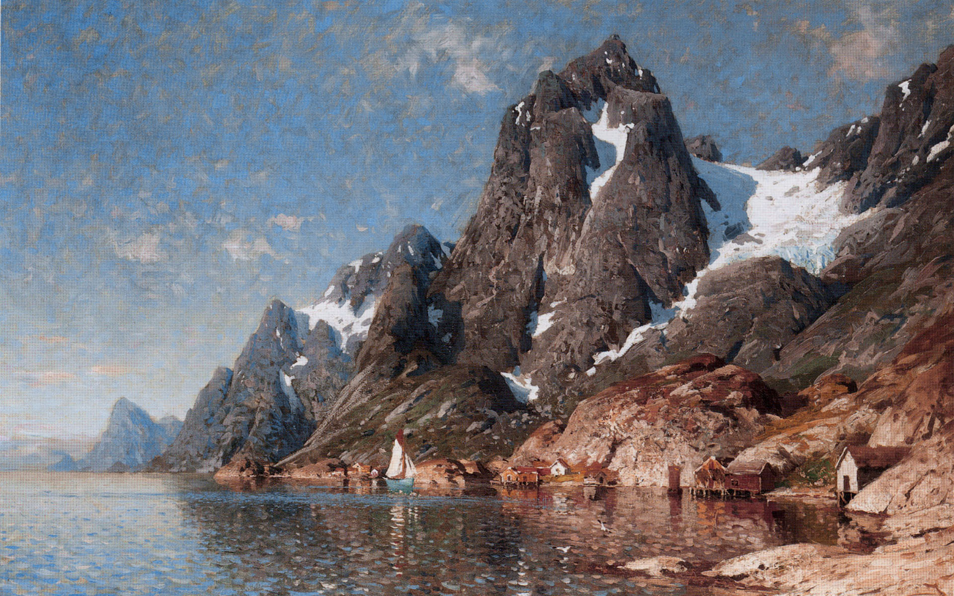 Sailing on the Fjord